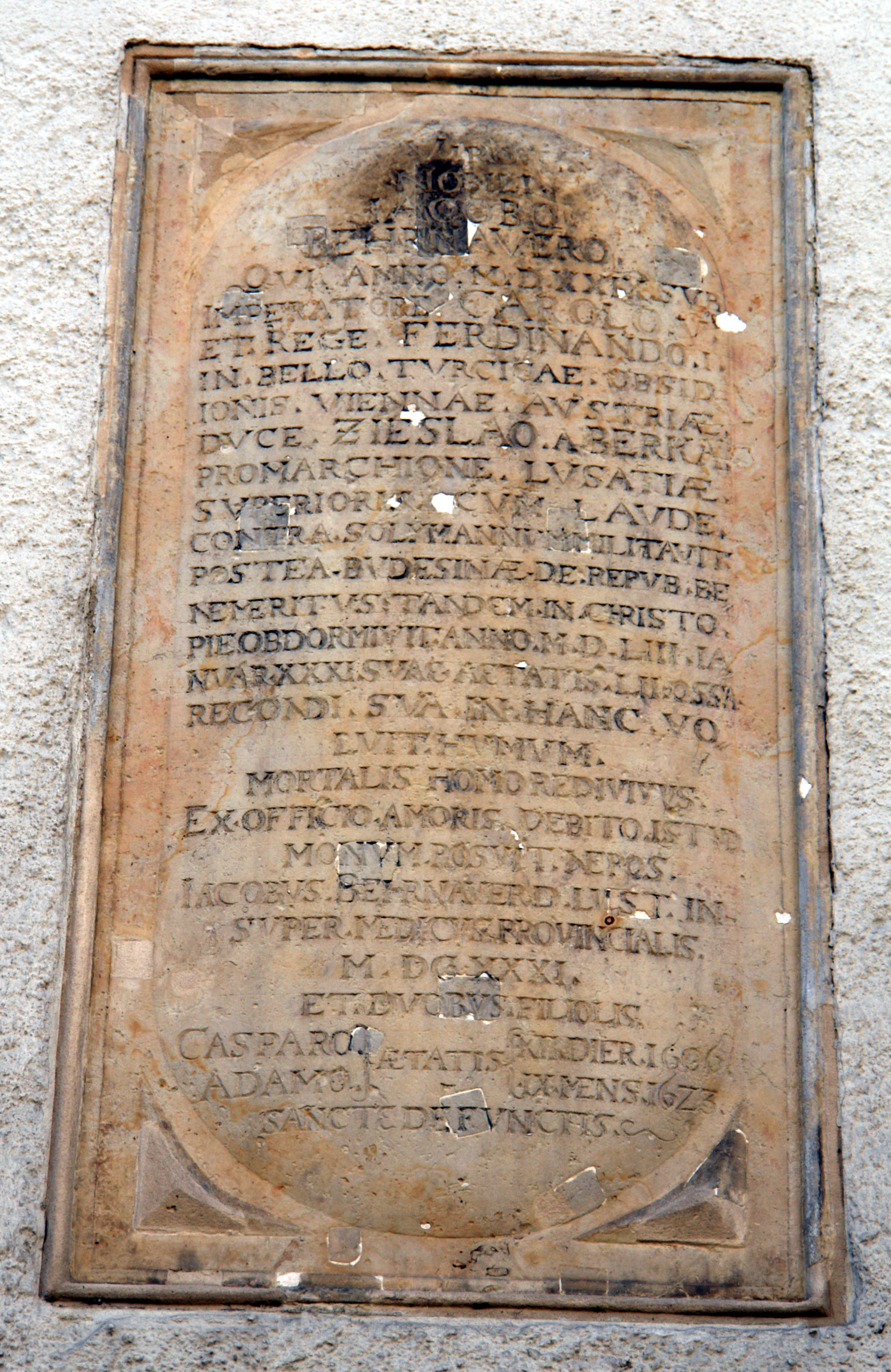 Church Liebfrauenkirche in Bautzen in Saxony, Germany.